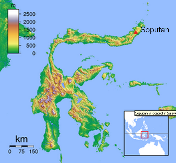 Soputan, Sulawesi, Locator Topography